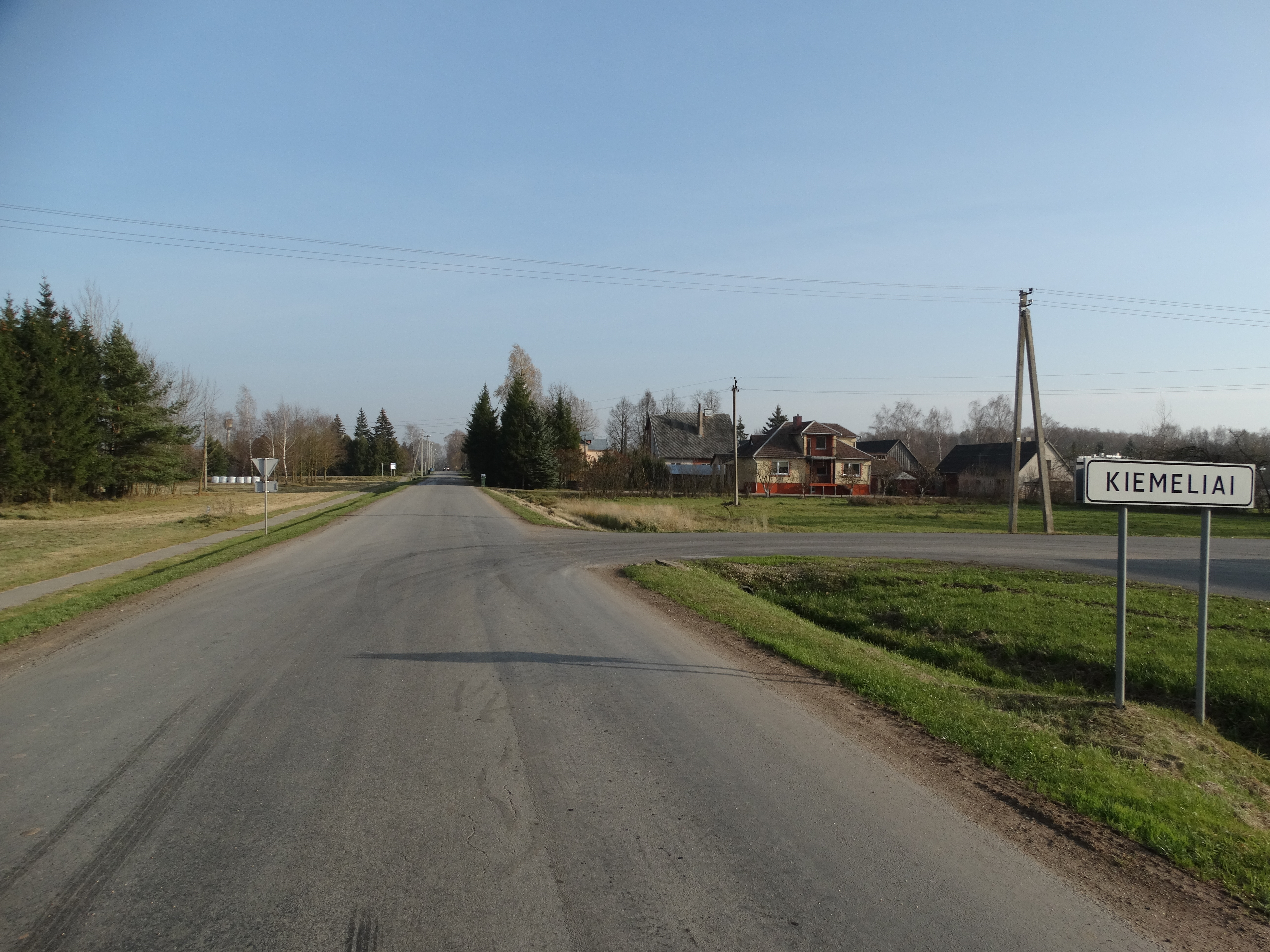 Kiemeliai, Pasvalys District, Lithuania